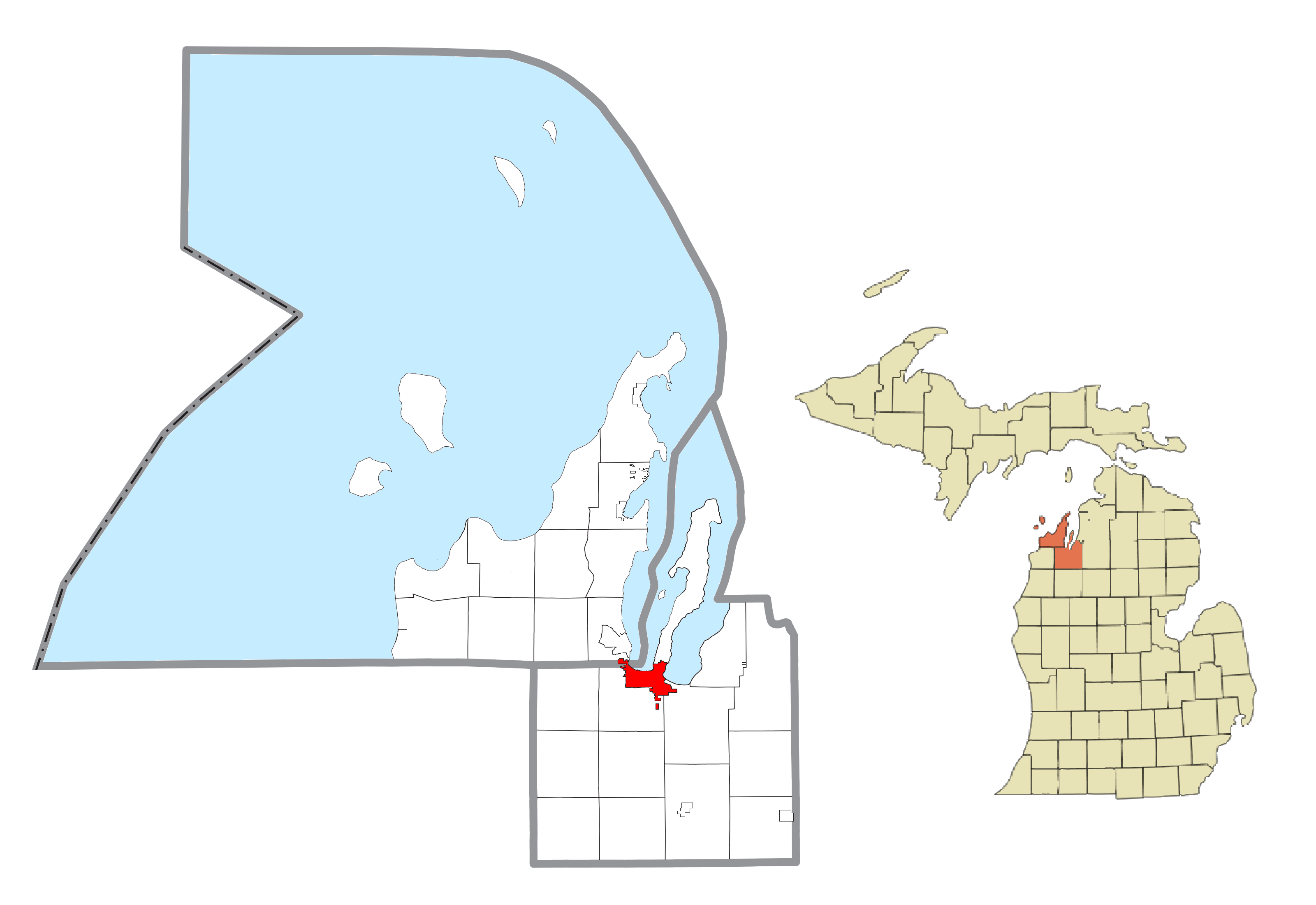 Traverse City, MI